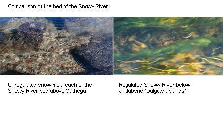 Snowy River bed- comparison of substrate condition